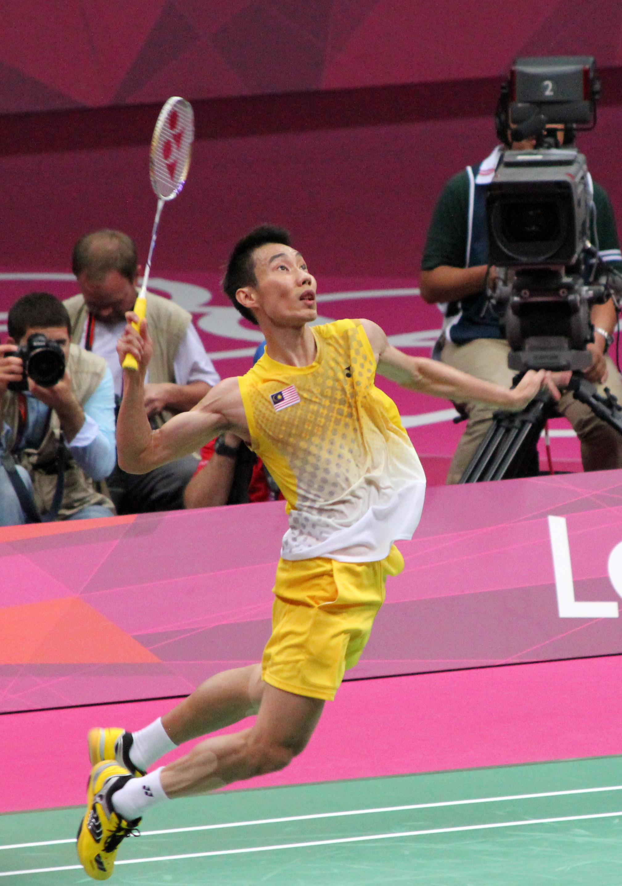 Mens badminton singles final between Lin Dan (China) and Lee Chong Wei (Malaysia) at the Wembley Arena, London 2012 Olympics